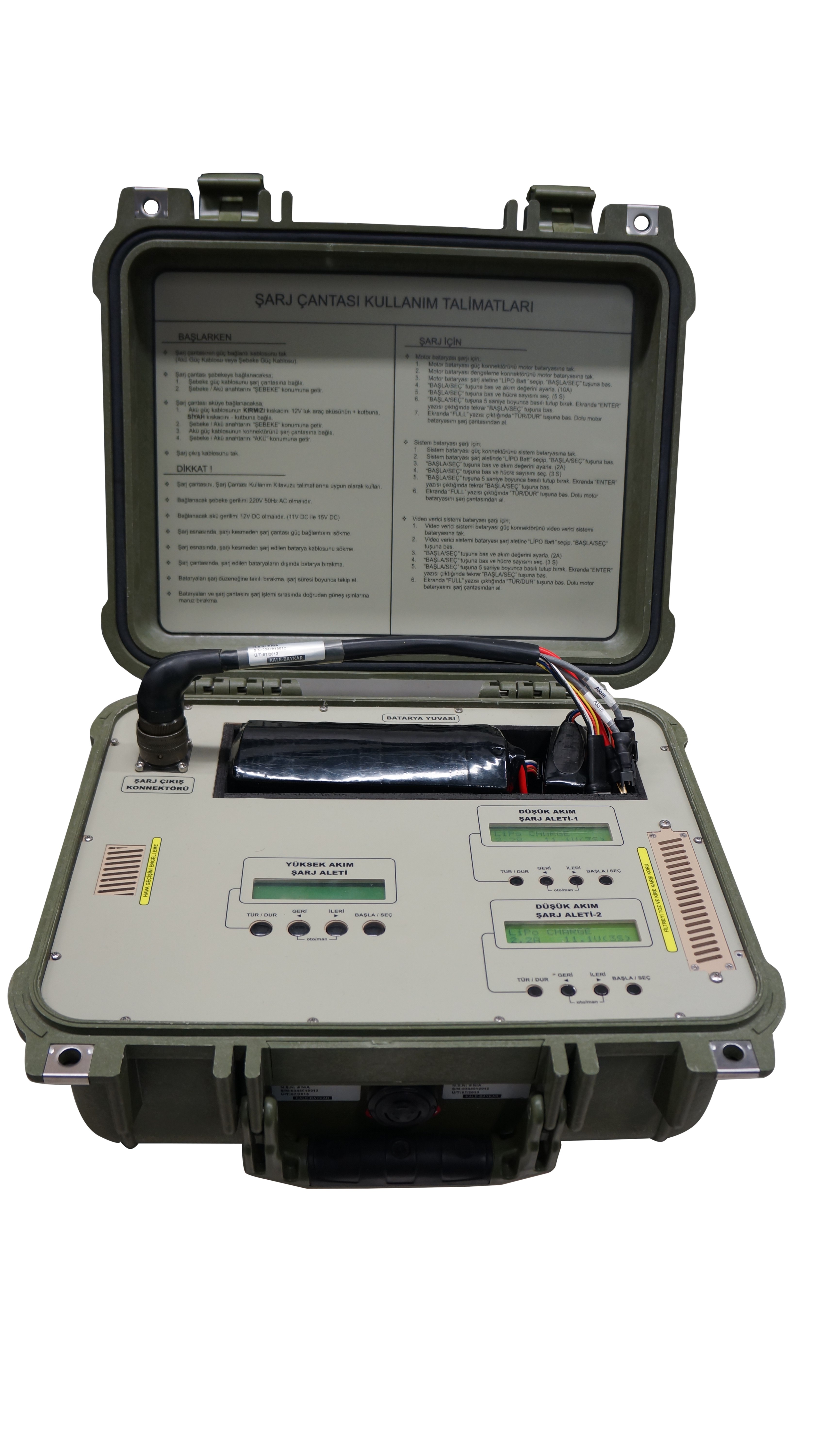 Batarya Şarj İstasyonu